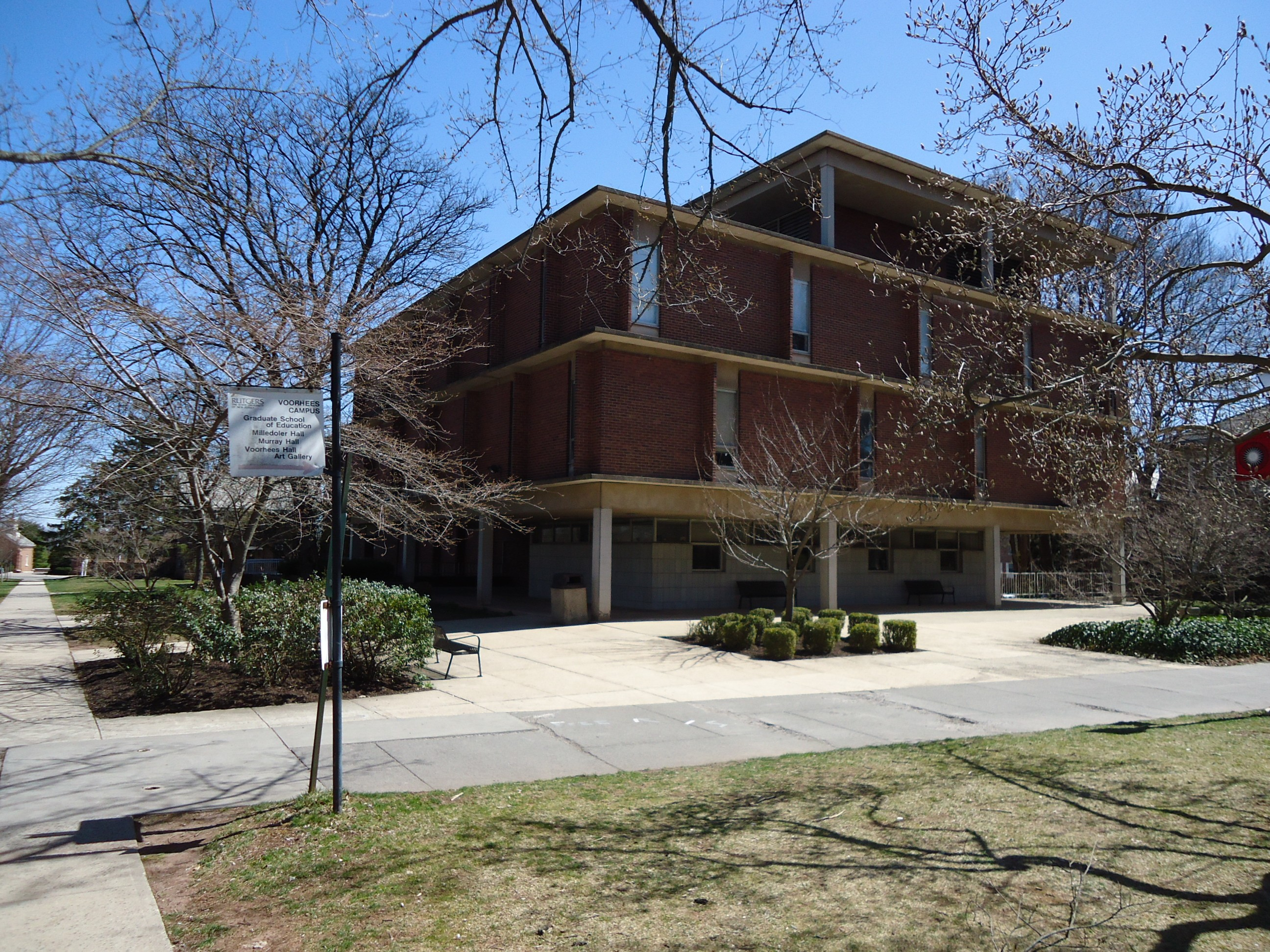 Rutgers University building on the Douglass campus.